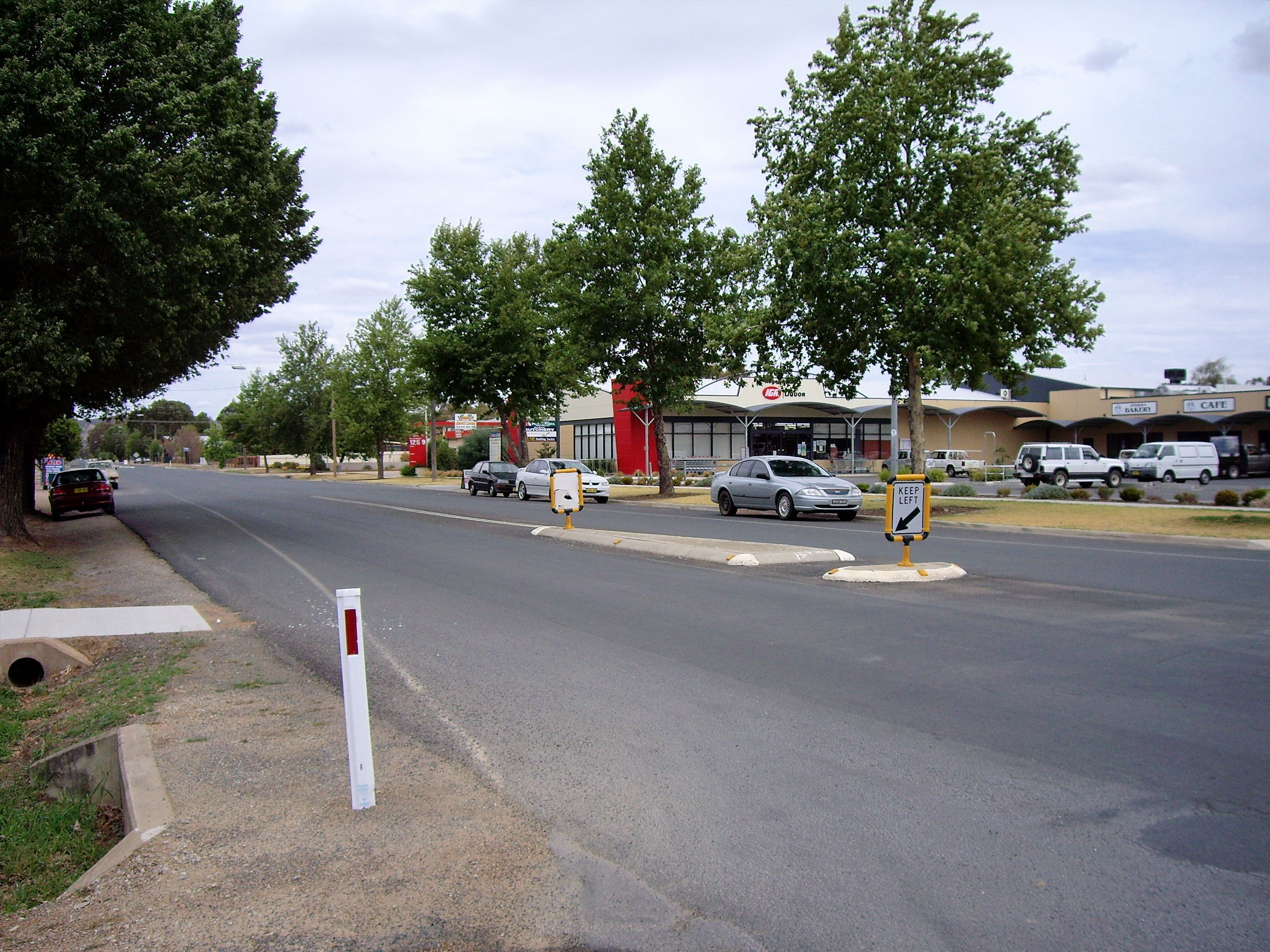 Jindera - Looking south towards Albury